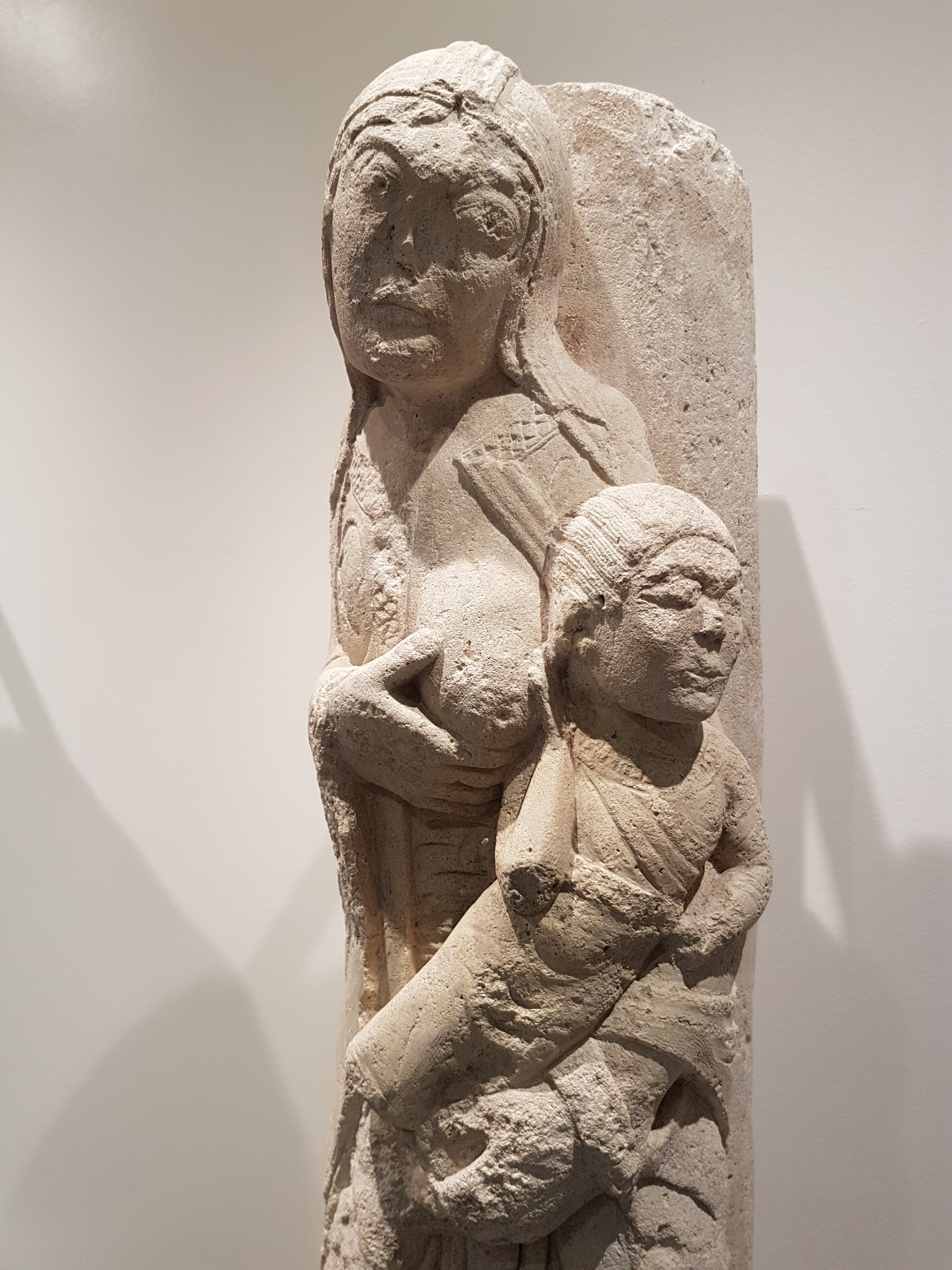 Baby Saint Nicholas refusing to breastfeed (around 1140-1150, museum of Saint-Maur des Fossés near Paris, France).